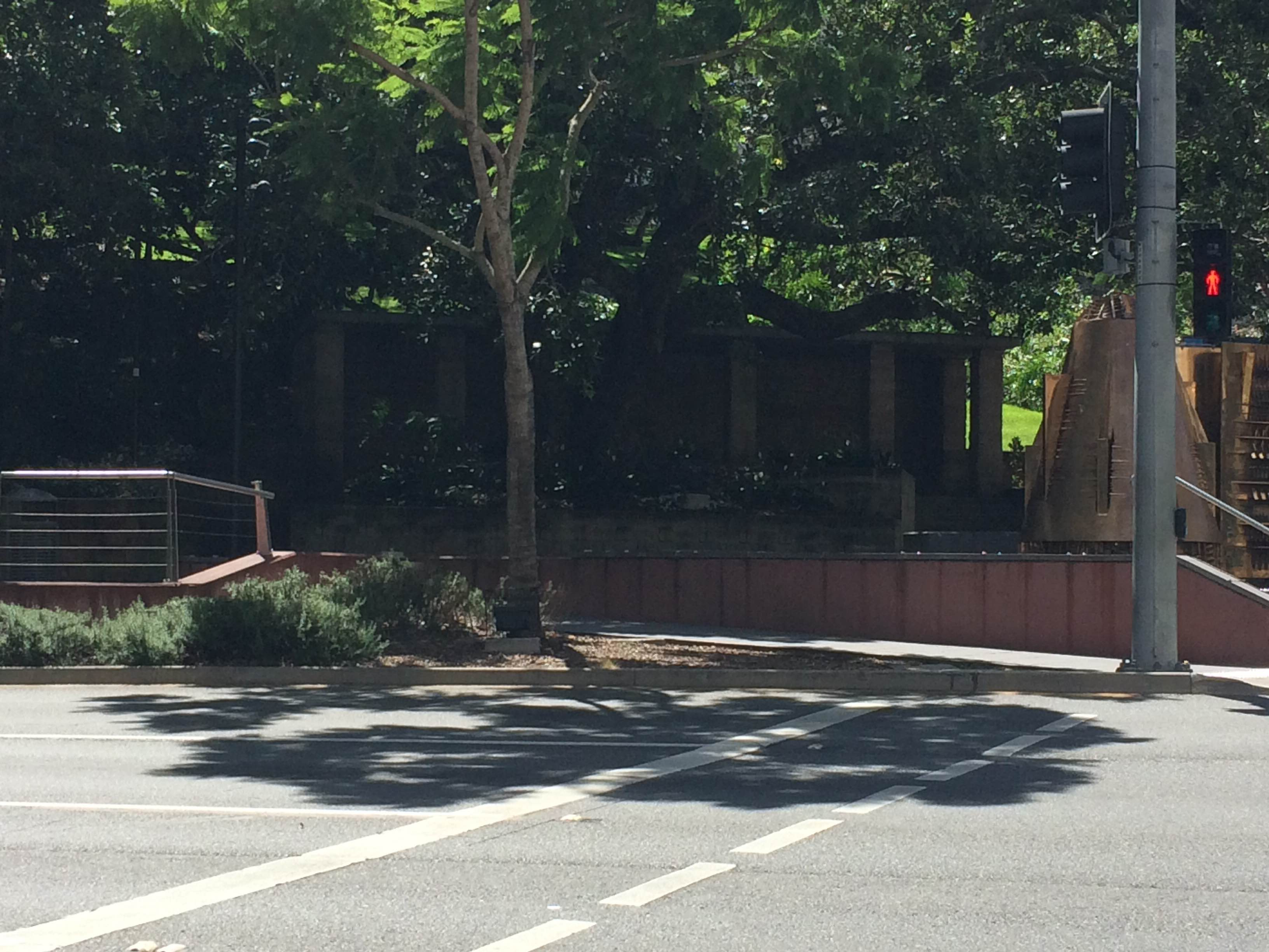 Air raid shelter, King Edward Park, hidden under the trees